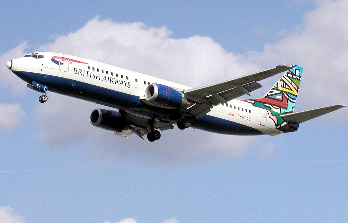 British Airways tail-colour scheme “Ndebele” on a Boeing 737-400 (G-DOCL) approaching London (Heathrow) Airport. Taken by Adrian Pingstone in 2003 and released to the public domain.